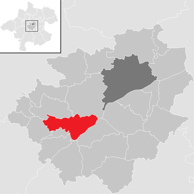 District Wels-Land